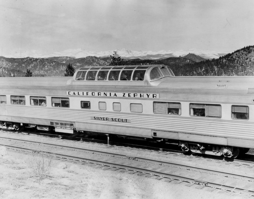 Photo of the California Zephyr Vista Dome car "Silver Scout" which was part of the new train in 1949. The Budd Company built #816 "Silver Scout" in 1948-1949 for the Western Pacific as part of the original California Zephyr. The Vista-Dome coach sat 46 in the lower level and accommodated 24 in non-revenue seating in the dome.